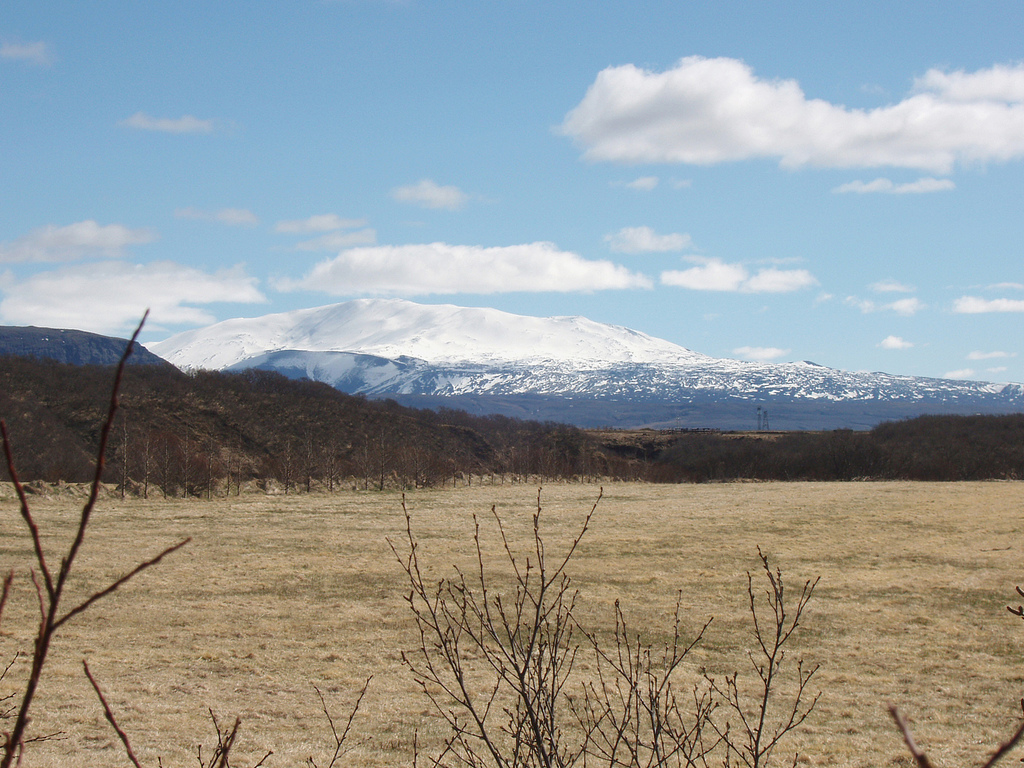 Hekla a volcano in Iceland at late in the winter. Digital - Olympus Camedia C-20 ZOOM